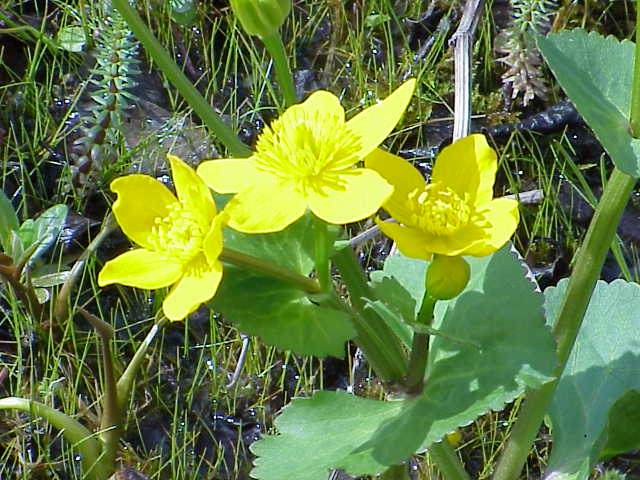 Species: Caltha palustris Family: Ranunculaceae Image No. 1